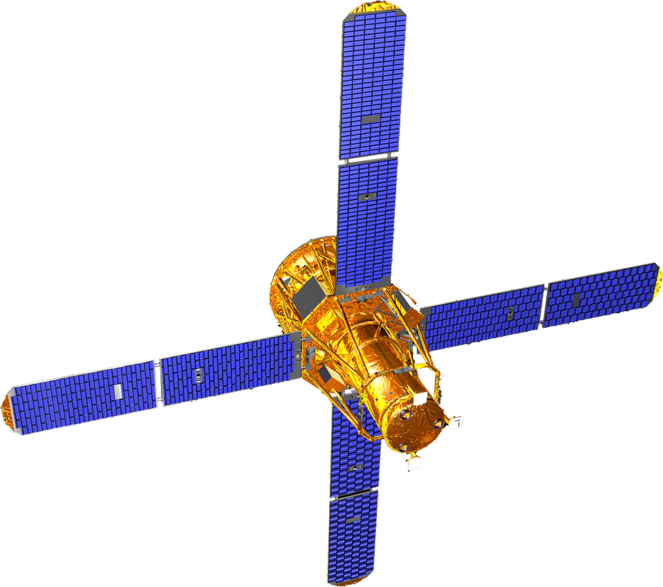 Image of the RHESSI spacecraft with transparent background.